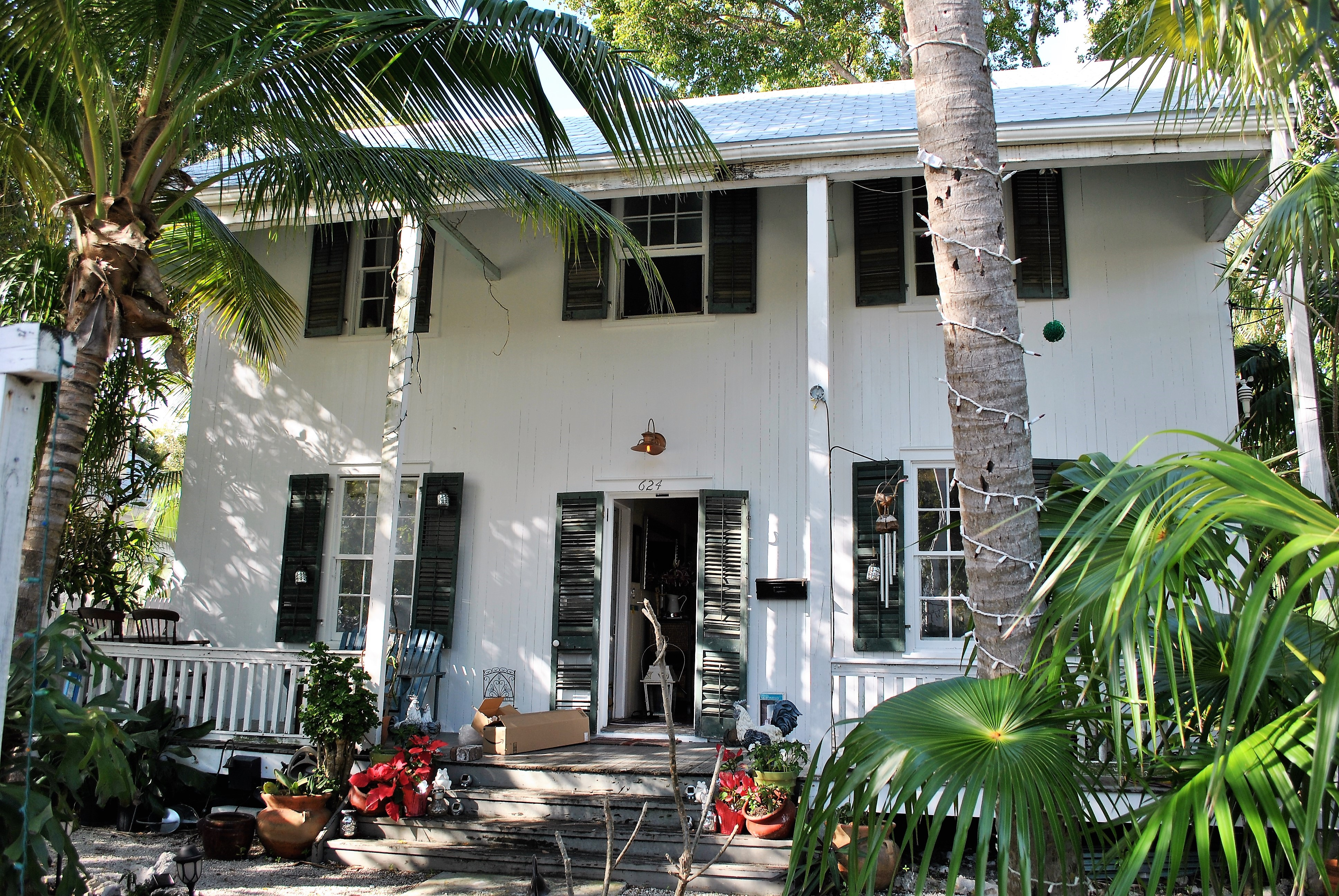 Image originally published in Queer Places: Retracing the Steps of LGBTQ people around the World Authored by Elisa Rolle